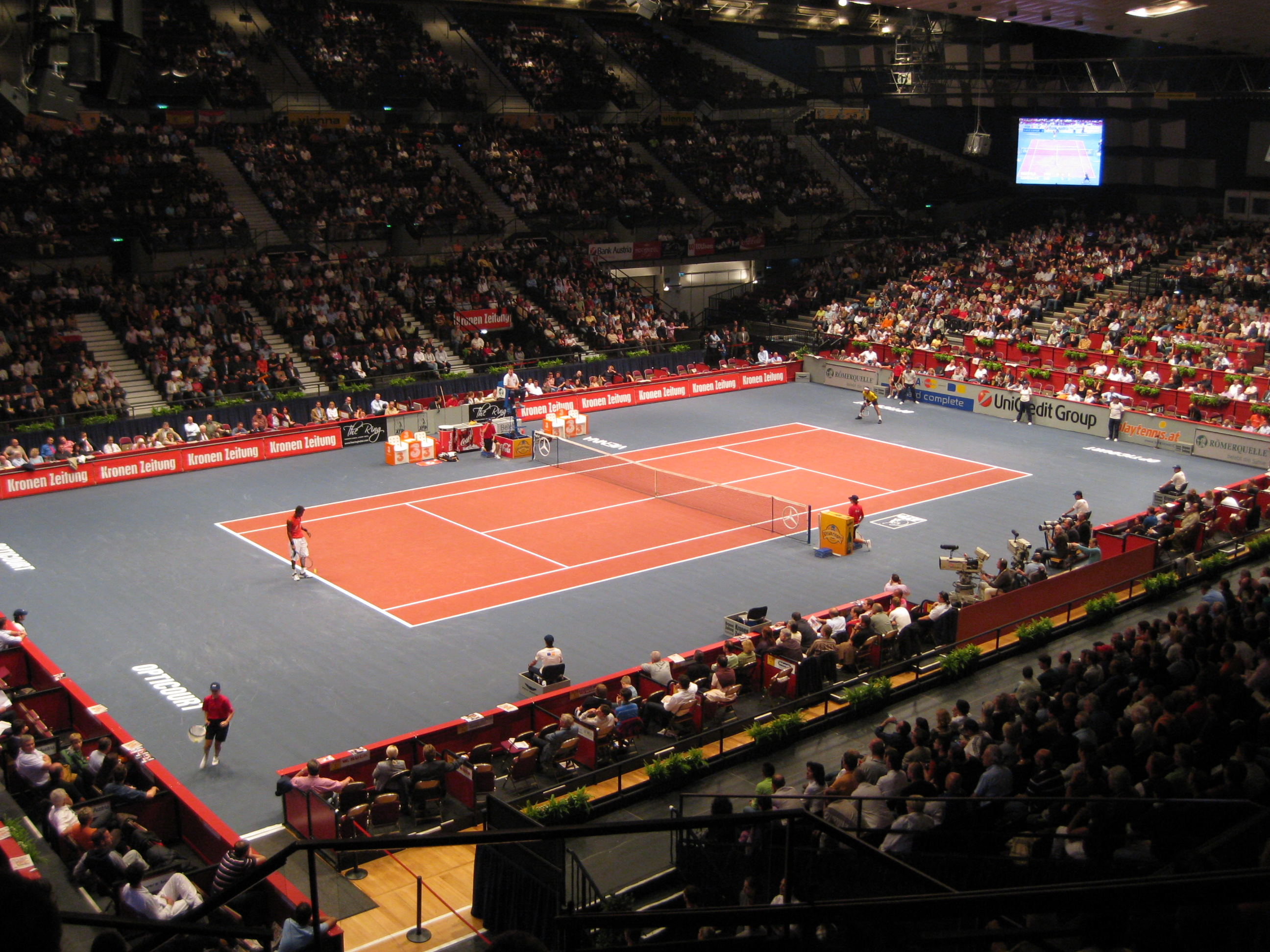 BA-TennisTrophy in Vienna